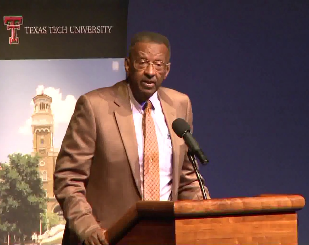 Full description from video: Dr. Walter E. Williams, John M. Olin Distinguished Professor of Economics, George Mason University gave a public lecture titled "The Role of Government in a Free Society" on September 19, 2013, at Texas Tech University. For This speech took place at the Allen Theatre at Texas Tech (source)